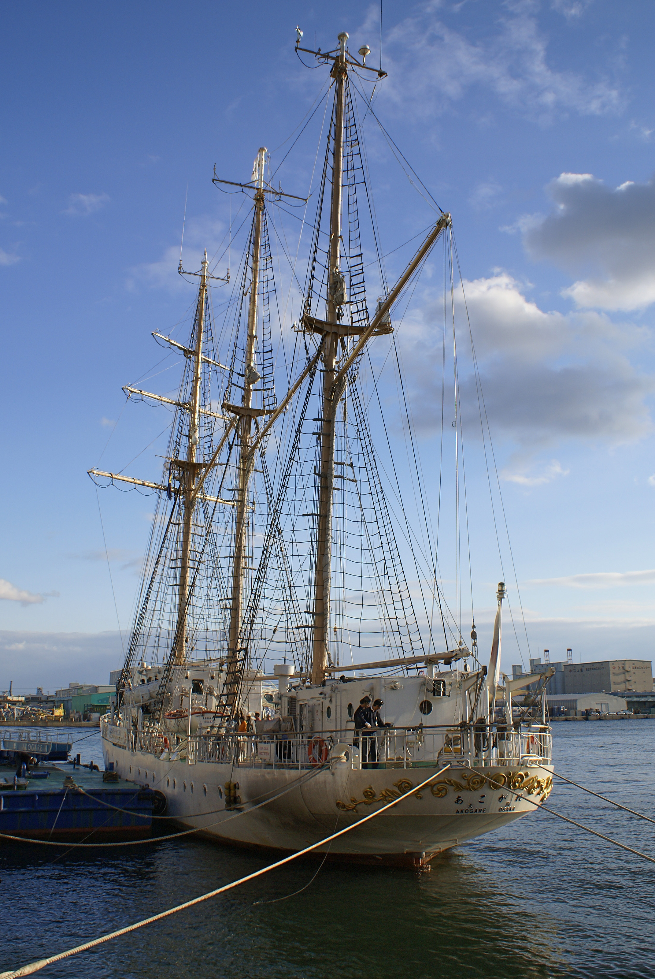 AKOGARE (Ship) at Asia and The Pacific Ocean Trade Center in Osaka, Japan